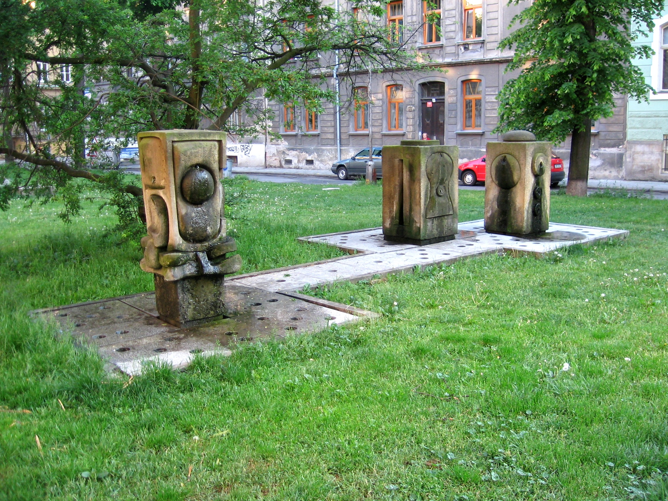 Theimer´s Fountain in Olomouc, Czech Republic